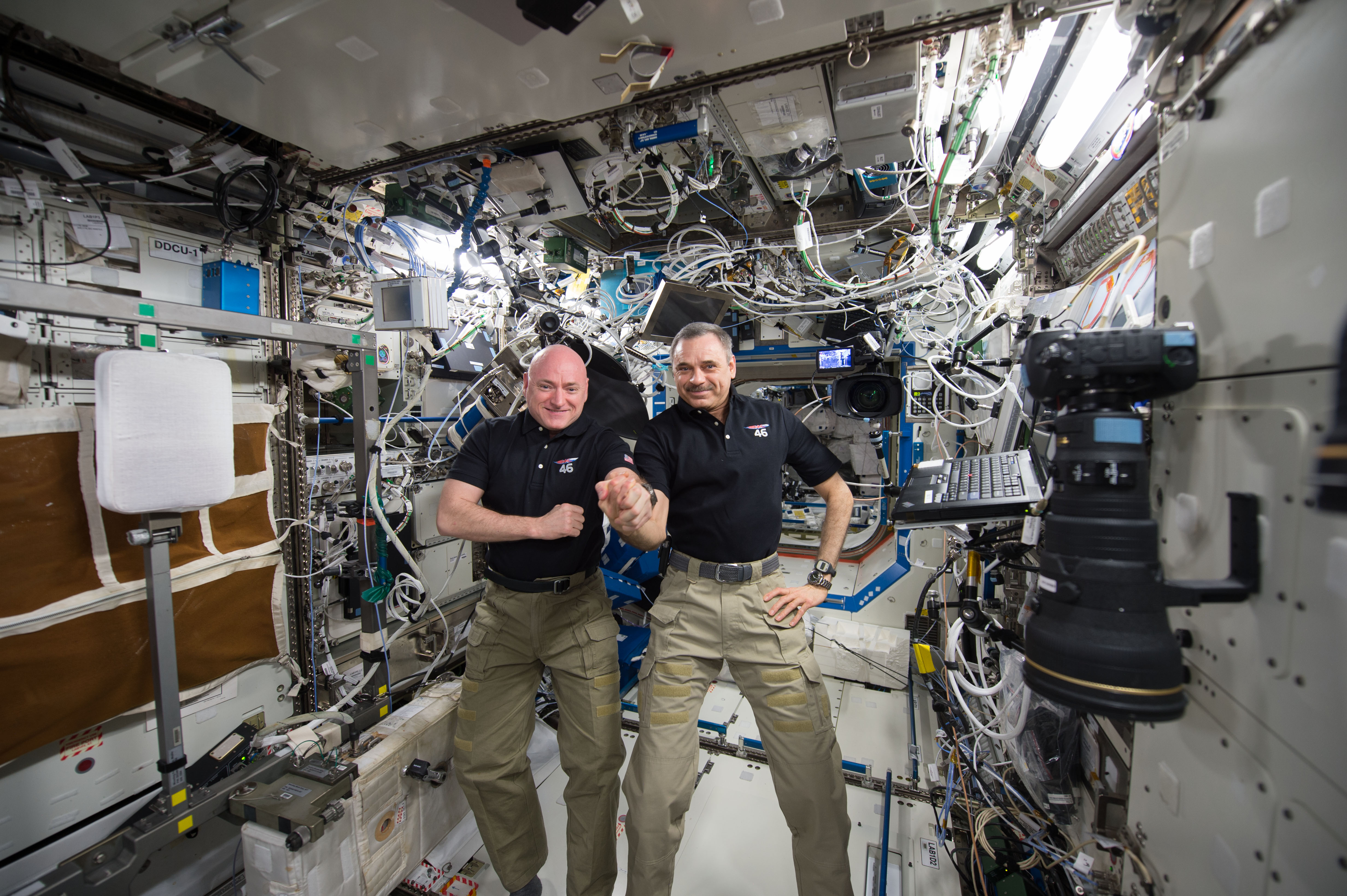 NASA astronaut Scott Kelly (left) and Russian cosmonaut Mikhail Kornienko (right) marked their 300th consecutive day aboard the International Space Station on Jan. 21, 2016. The pair will spend a total of 340 days in space on their one-year mission as researchers hope to better understand how the human body reacts and adapts to long-duration spaceflight. This knowledge is critical as NASA looks toward human journeys deeper into the solar system, including to and from Mars, which could last 500 days or longer.